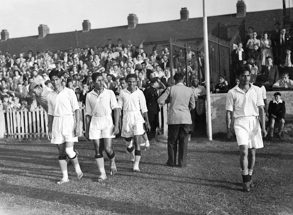 Talimeren Ao on the left, leading the Indian team to Cricklefield Stadium to play against France, on 31st July 1948. 8 players out of 11 played barefoot but 3 players including Taj Mohammed (on the right in the pic) wore boots though the weather was dry.